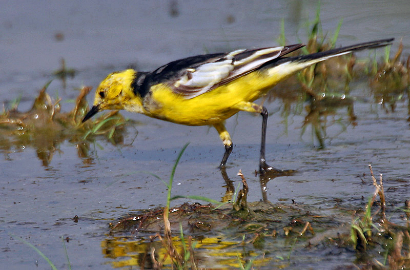 Citrine wagtail (Motacilla citreola) at Keoladeo National Park, Bharatpur, Rajasthan, India.